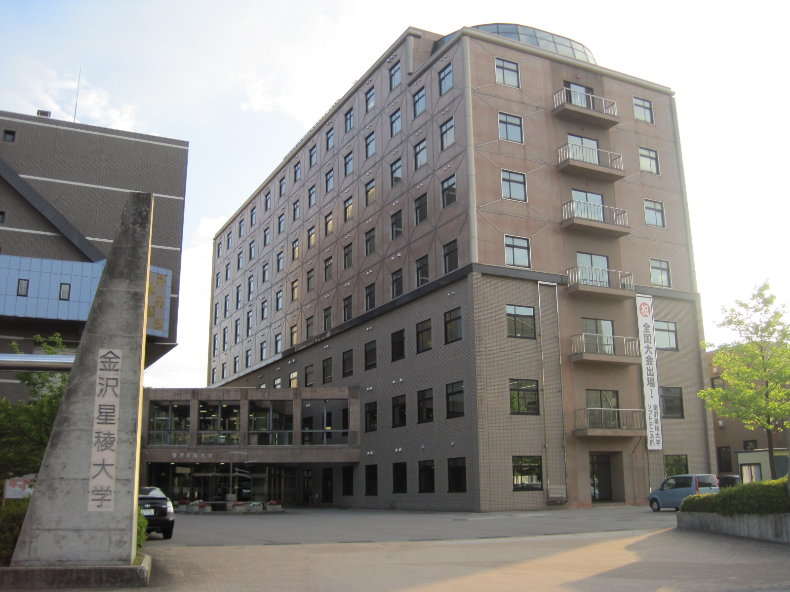 Kanazawa Seiryo University(Kanazawa city, Ishikawa prefecture)